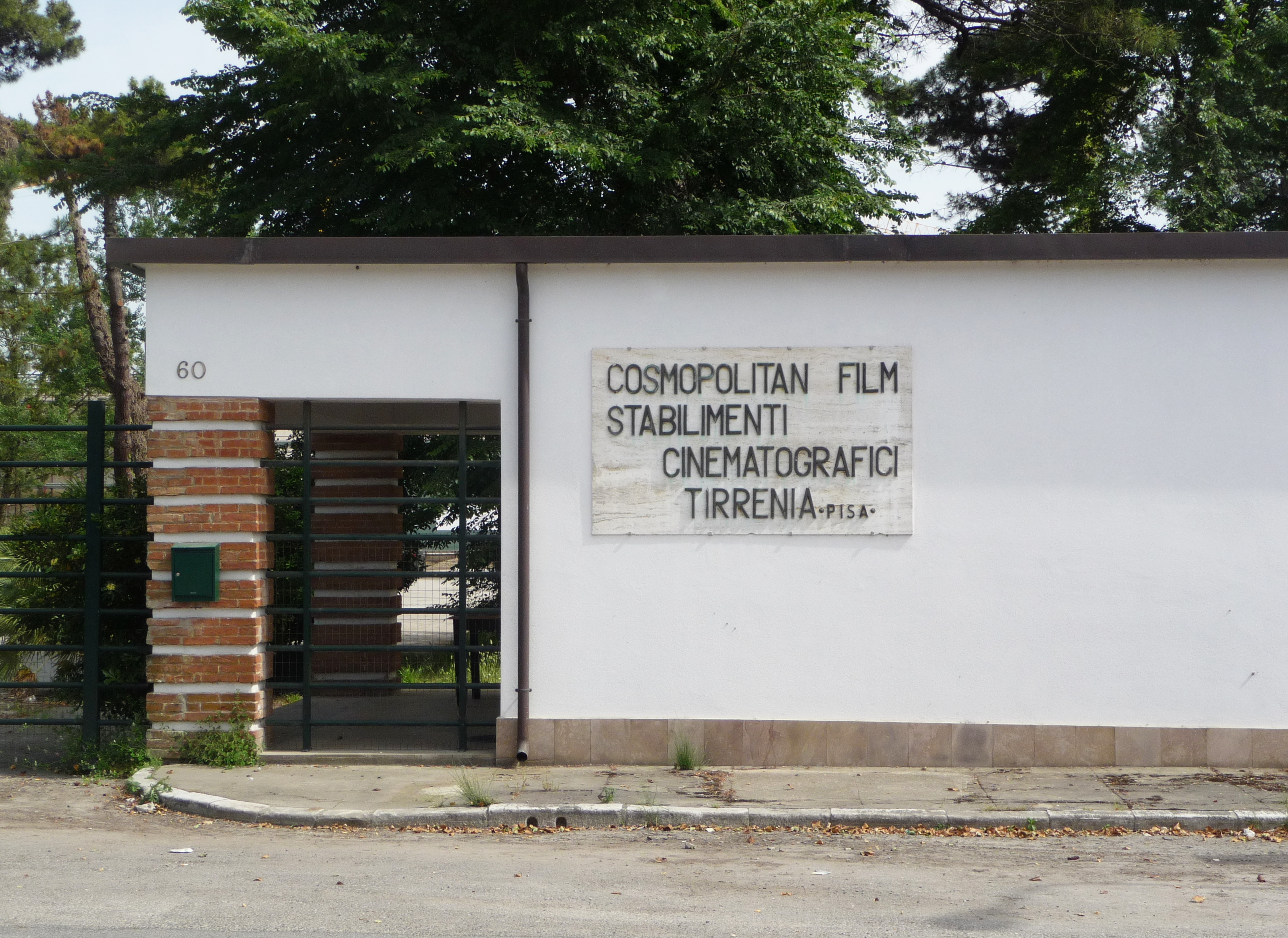 Stabilimenti Cinematografici Tirrenia (Pisorno), entrance - Pisa, Tuscany, Italy